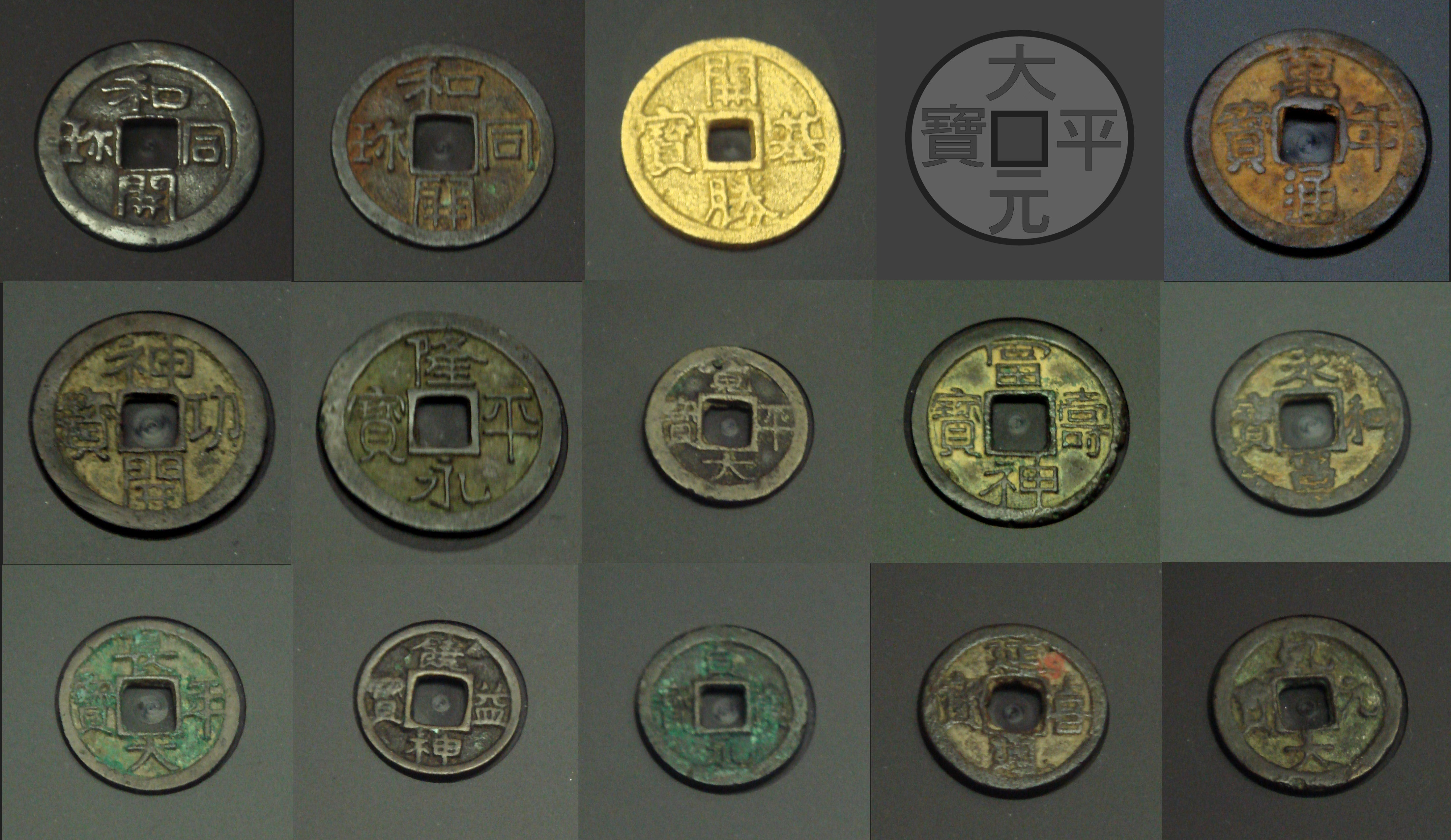 Japan known coin types from 708 to 958: Top: silver 和同開珎 (708), copper 和同開珎 (708), gold 開基勝宝 (760), silver 大平元宝 (760), copper 万年通宝 (760). Middle: 神功開宝 (765), 隆平永宝 (796), 観平大宝 (809), 富壽神宝 (818), 承和昌宝 (835) Bottom: 長年大宝 (848) 饒益神宝 (859), 貞観永宝 (870), 延喜通宝 (907), 乹元大宝 (958). Some sources add to this series: 寛平大宝 (890) [1]